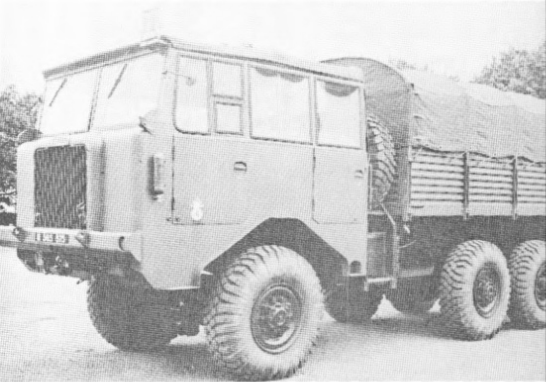 GBU-15 6x6 truck, front oblique view from the left side